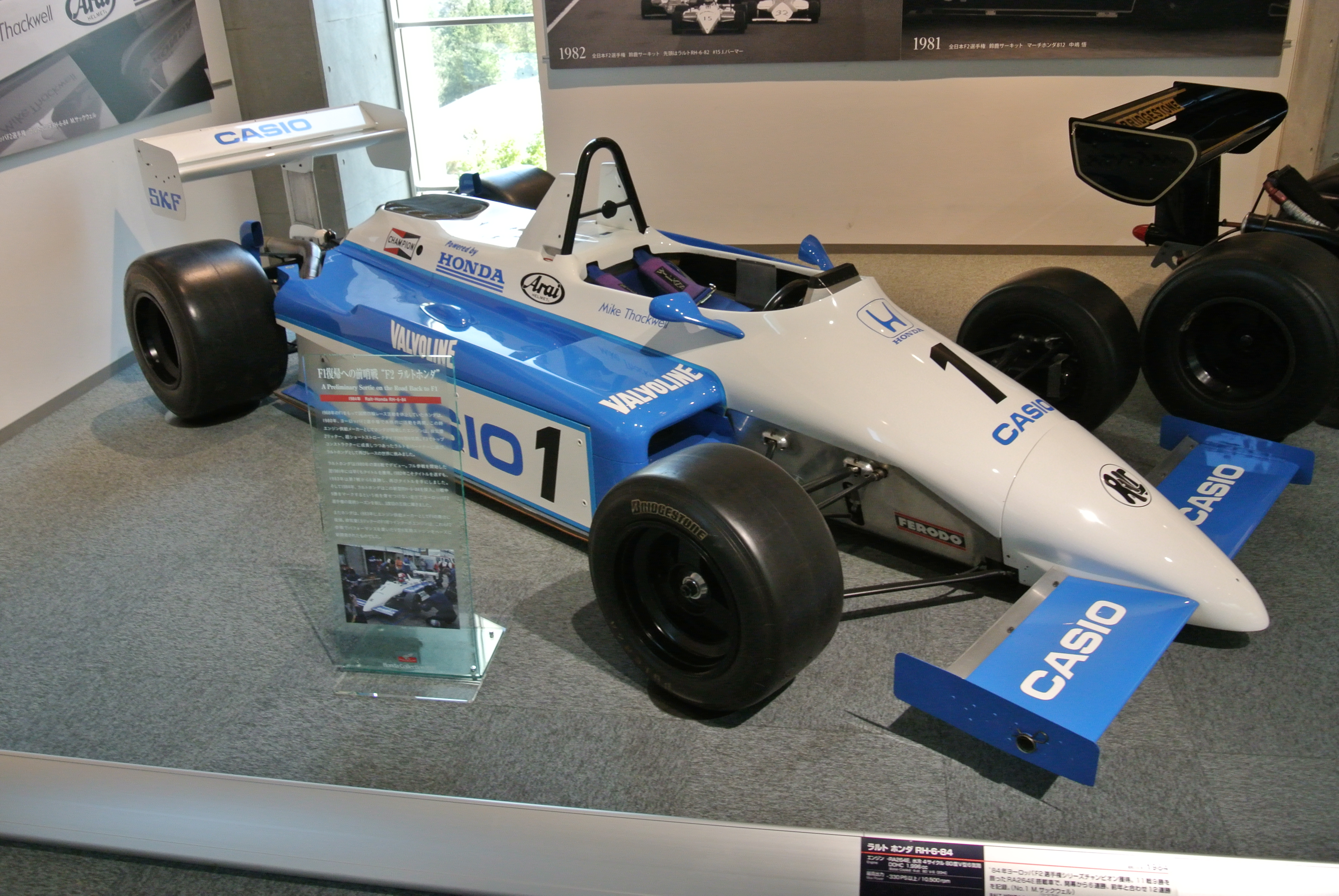 1984 Ralt Honda RH-6-84 in the Honda Collection Hall.